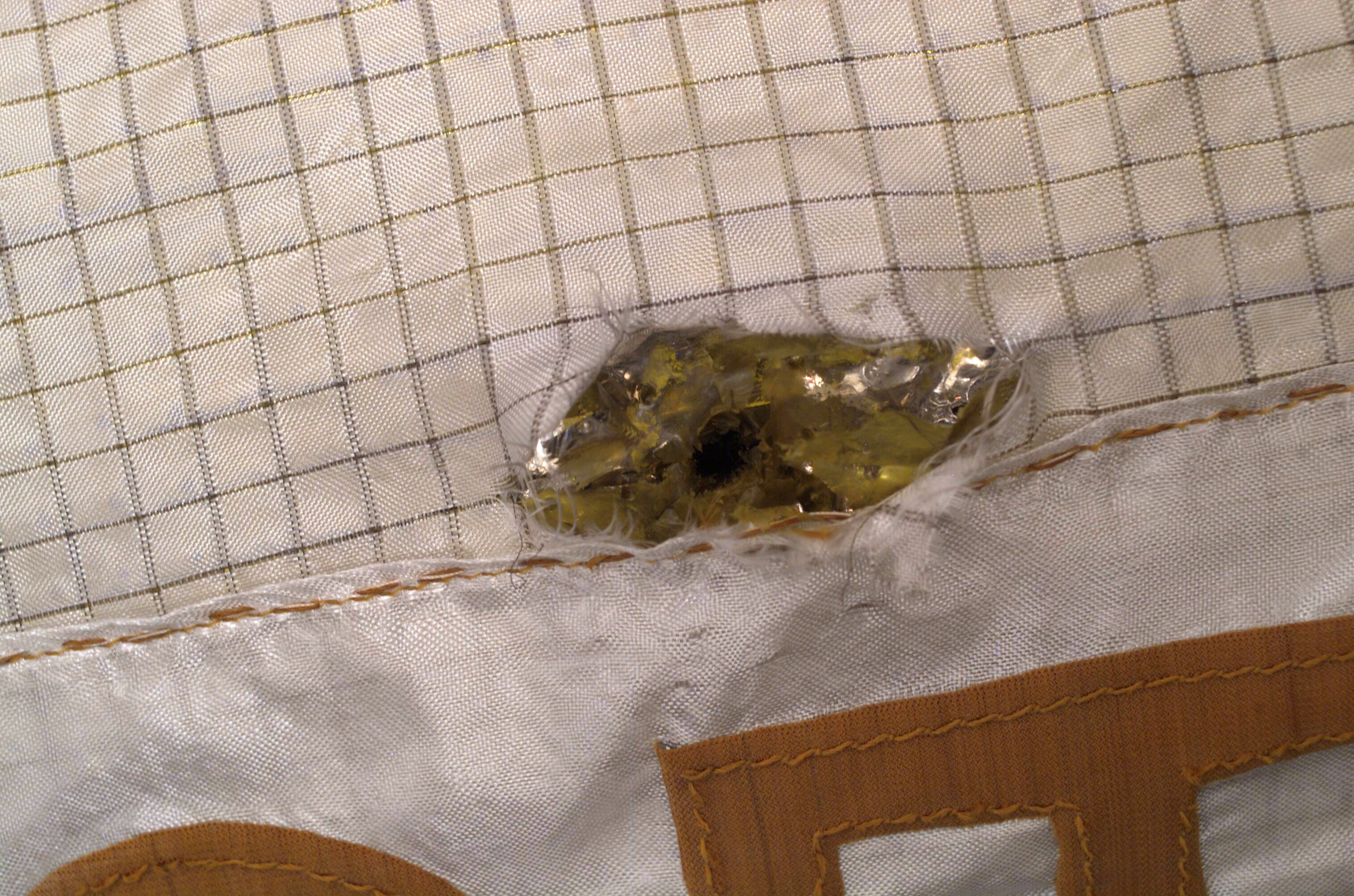 During the Russian spacewalk conducted by cosmonauts Fyodor Yurchikhin, Expedition 15 commander, and Oleg Kotov, flight engineer, Yurchikhin commented on damage to a multi-layer insulation protective blanket on the Zarya module. The damage, he noted, was apparently from a micrometeoroid impact.